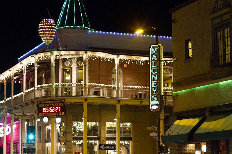 Downtown Flagstaff lit up for the Holidays